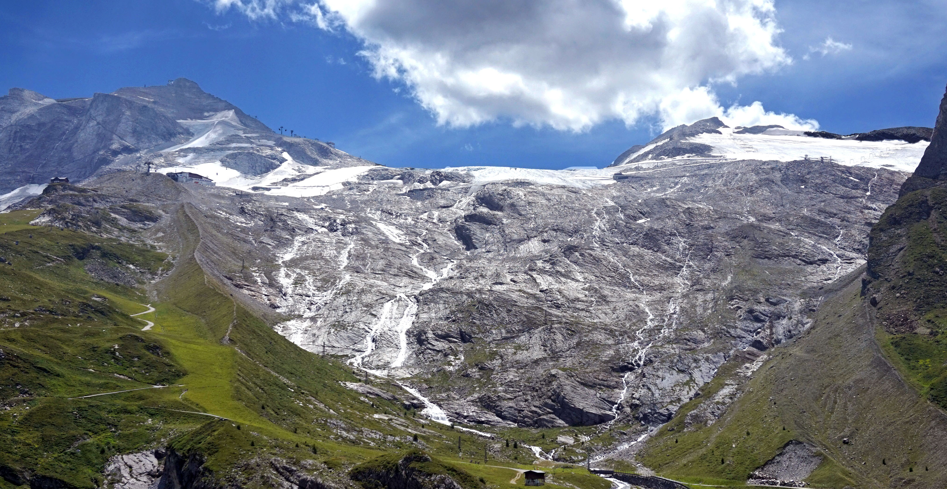 Hintertux glacier, Austria. This photograph was taken with a Sony Alpha a5000.